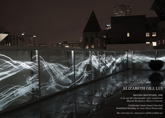 Elizabeth Gill Lui's original LED-glass mural "Moving Mountains" 125 feet. Site specific photo-etched-glass created for The Denver Art Museum's Residences. Architect:Studio Daniel Libeskind.